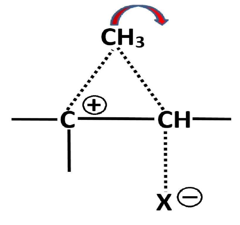 Nonclassical charge delocalization in the transition state of a 1,2-alkyl shift